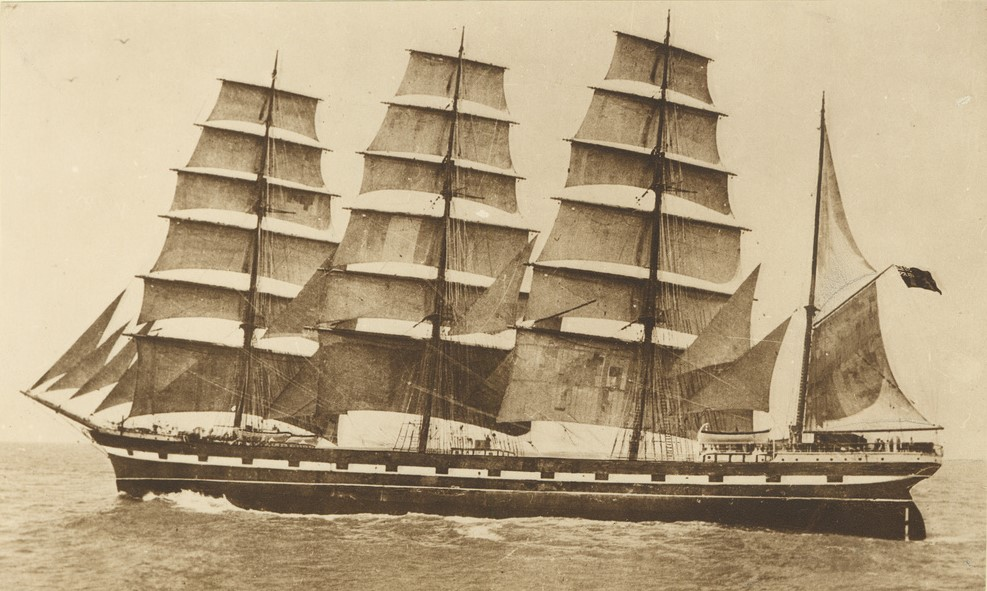 Marion Lightbody under sail PRG-1373-15-64